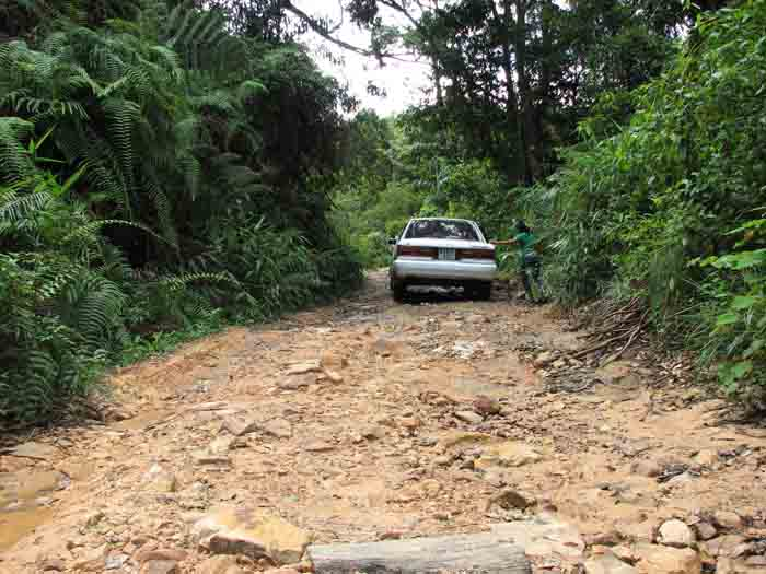 1986-1991 Toyota Camry sedan on road to Bokor Hill Station, Cambodia.